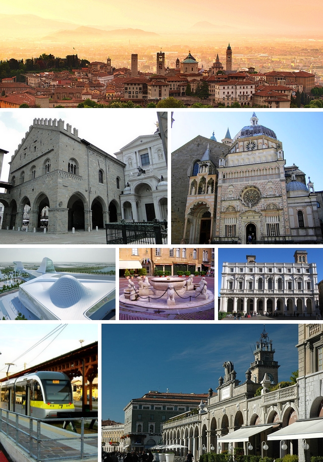 A collage of images relating to Bergamo, Lombardy, Italy. Clockwise from top left: A sunrise at the old town; Palazzo della Ragione visto da Piazza Duomo; outside view of the Cappella Colleoni from Piazza Vechia side with back entrance in Santa Maria Maggiore; The Azzano — San Paolo Master Plan created in 2008 by Asymptote Architecture; the Contarini fountain; the Palazzo Nuovo; an Albino tram at the terminus; and Piazza Vittorio Veneto.